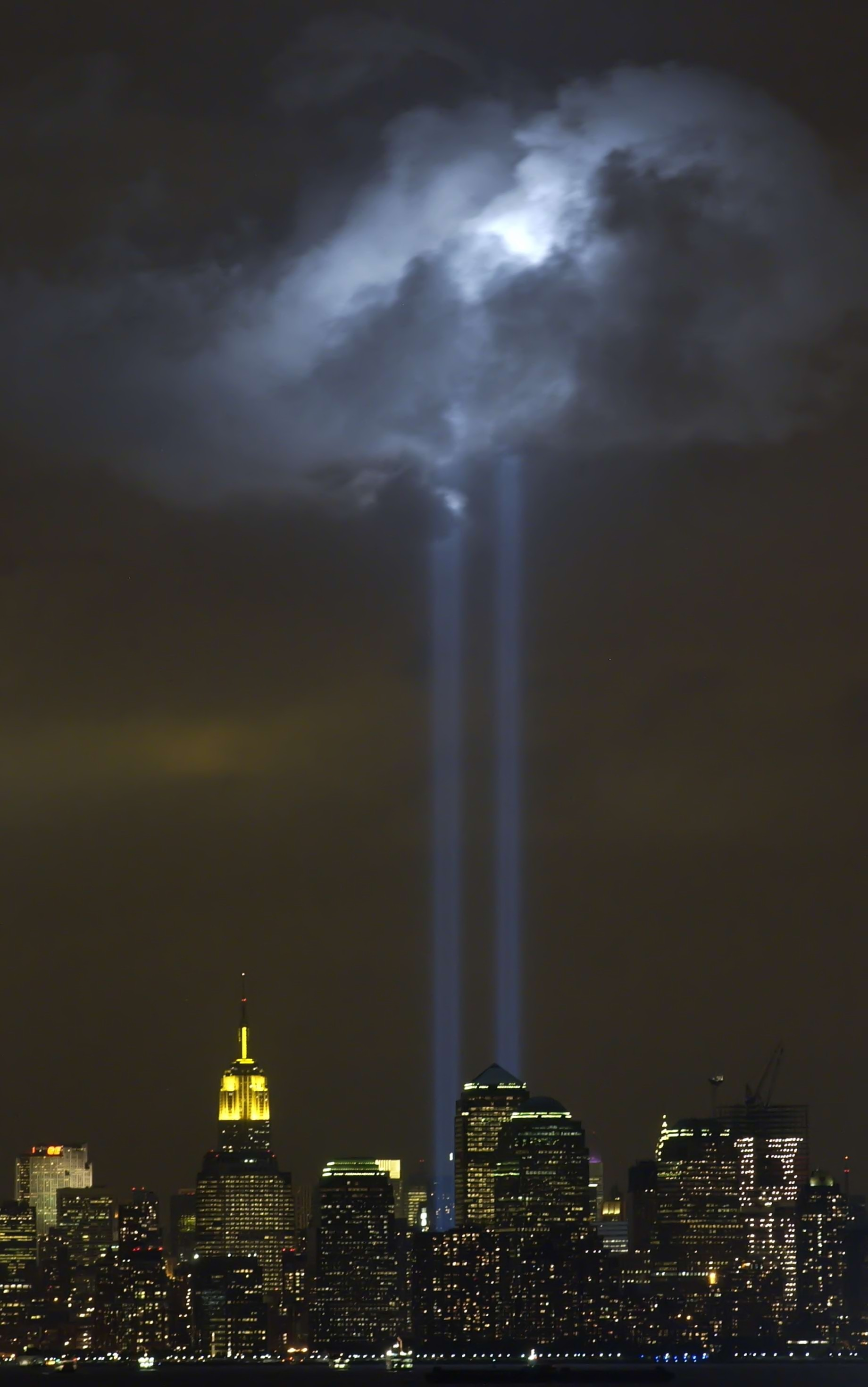 New York City, N.Y. (Sept. 9, 2004) - As the anniversary of the September 11, 2001 terrorist attack approaches, a test of the Tribute in Light Memorial illuminates a passing cloud above lower Manhattan. The twin towers of light, made-up of 44 searchlights near “Ground Zero,” are meant to represent the fallen twin towers of the World Trade Center. Depending on weather conditions, the columns of light can be seen for at least 20 miles around the trade center complex. U.S. Coast Guard photo by Public Affairs 2nd Class Mike Hvozda (RELEASED)